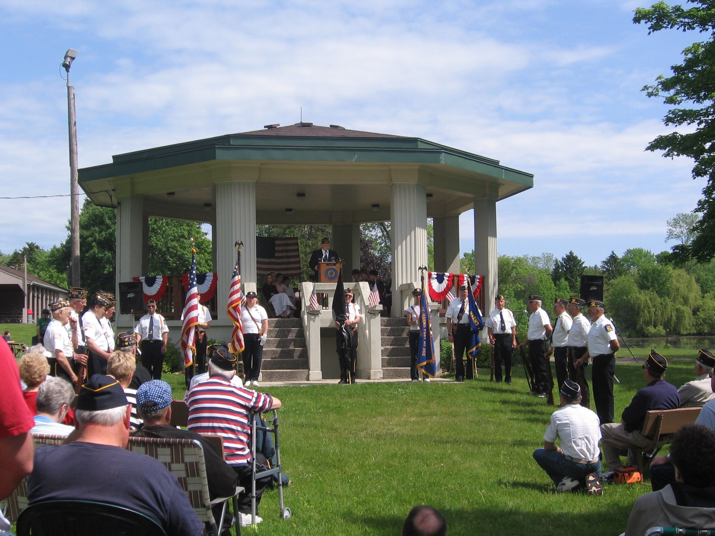 A Memorial Day service in Grafton on May 28, 2007, at Veterans Park along the Milwaukee River. I took this photo myself.